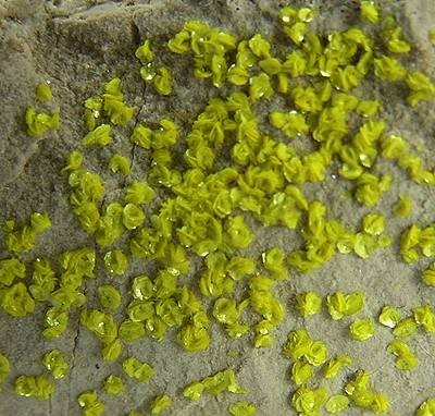 Tyuyamunite — (Carnotite) Locality: Marie Mine, Pryor Mountains, Carbon County, Montana, USA. (Locality at ) Size: 6.4 x 2.4 x 1.9 cm. Small, intense yellow crystal rosettes isolated on matrix.